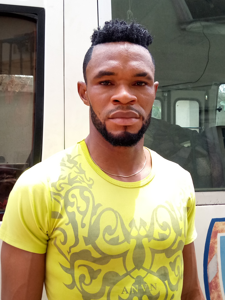 Akwa United striker Michael Ohanu at the Akwa United club house on 20 March 2020